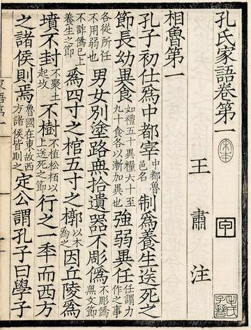 Kongzi Jiayu section 1: Xiang Lu